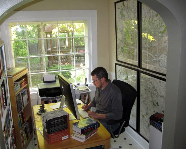 This image is a picture taken of Alex Grecian writing at his desk. Behind him are maps of Victorian Era London that he uses for reference for his Murder Squad novel series published by G.P. Putnam's Sons. This will be used on page Alex Grecian.